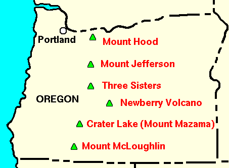 Cropped version of USGS Cascades volcanoes map, showing just the major volcanoes in Oregon